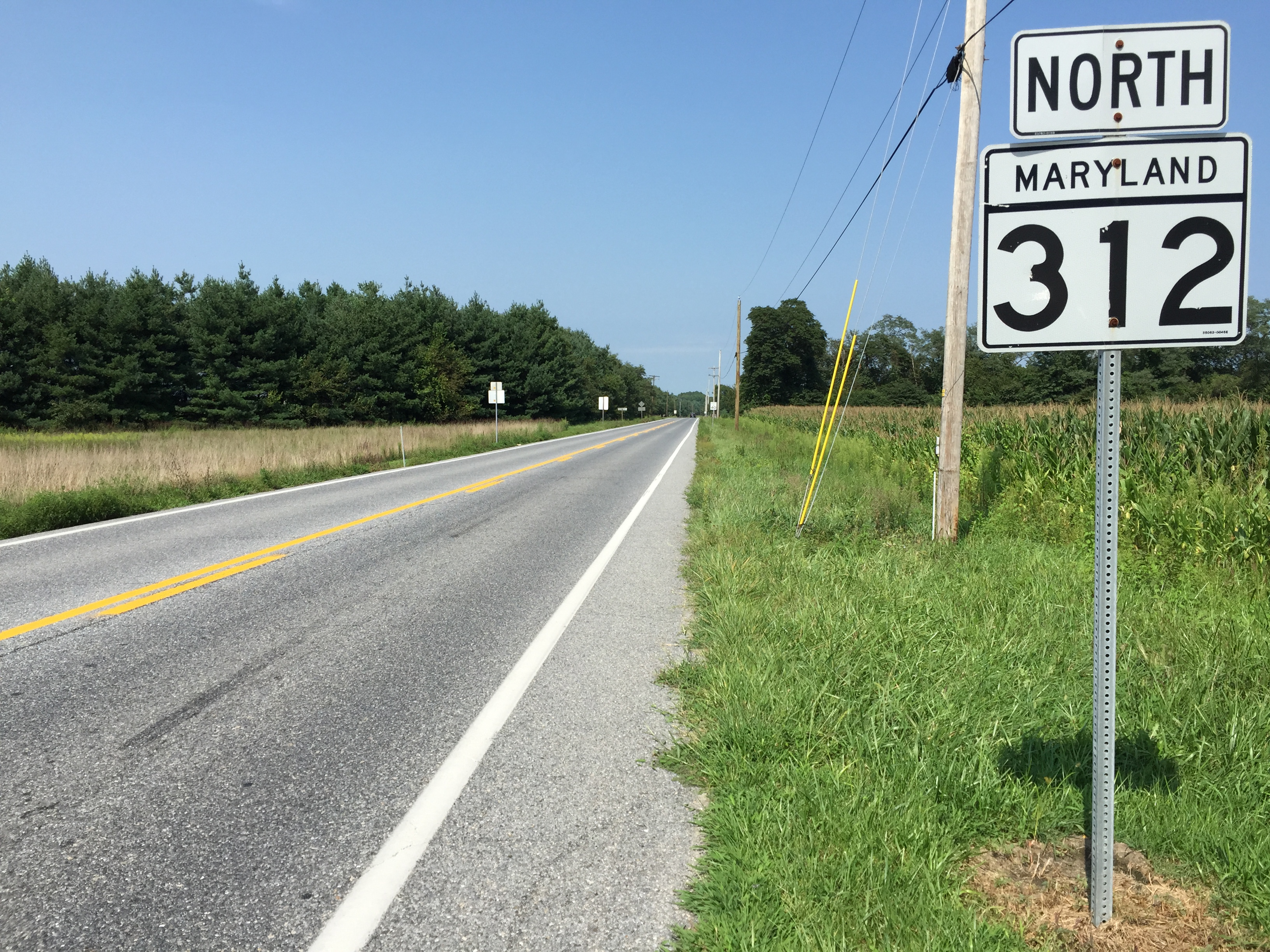 View north along Maryland State Route 312 (Oakland Road) at Maryland State Route 304 (Ruthsburg Road) in Bridgetown, Caroline County, Maryland